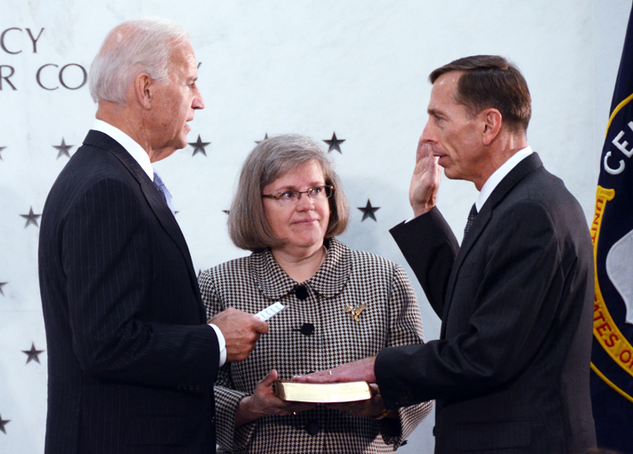 Although officially sworn in by Vice President Joseph R. Biden in a ceremony at the White House on September 6, 2011, David H. Petraeus was ceremonially sworn in by Biden as the twentieth Director of the Central Intelligence Agency at CIA Headquarters in Langley, Virginia on October 11, 2011.